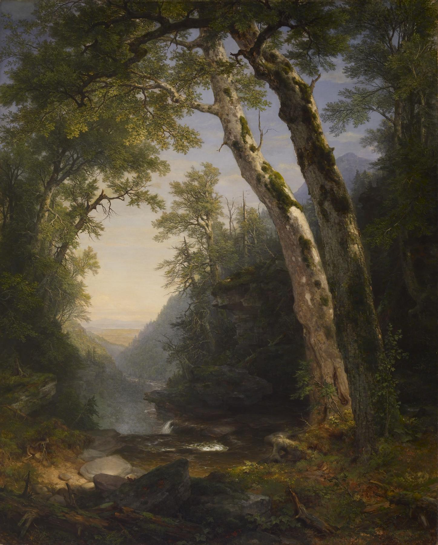 This painting was commissioned by William T. Walters in 1858, when the 62-year-old Durand was at the height of his fame and technical skill. The vertical format of the composition was a trademark of the artist, allowing him to exploit the grandeur of the sycamore trees as a means of framing the expansive landscape beyond. Durand's approach to the "sublime landscape" was modeled on that of Thomas Cole (1801–48), founder of the Hudson River School of painting. The painters of this school explored the countryside of the eastern United States, particularly the Adirondack Mountains and the Catskills. Their paintings often reflect the Transcendental philosophy of Ralph Waldo Emerson (1803–82), who believed that all of nature bore testimony to a spiritual truth that could be understood through personal intuition.